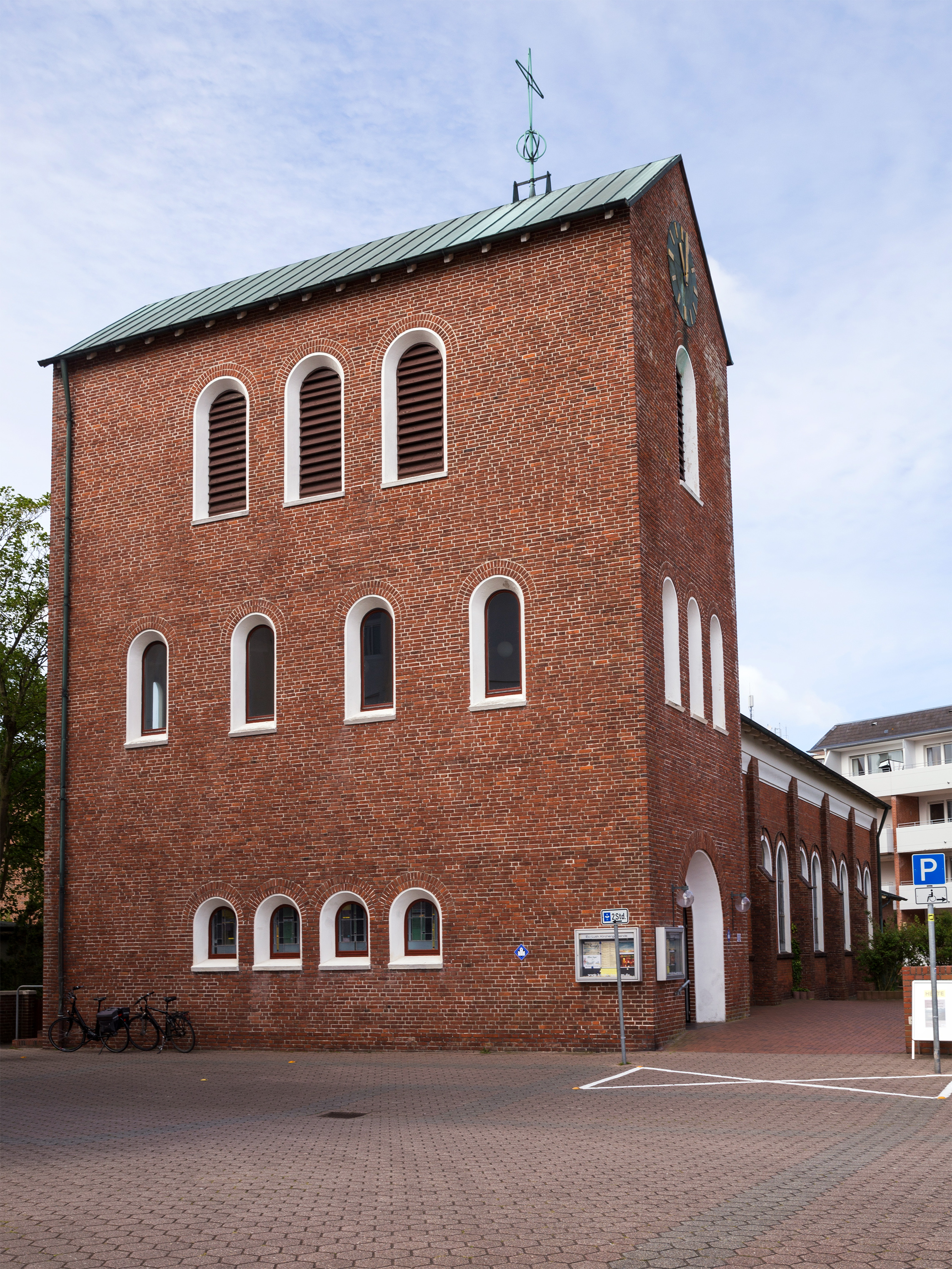 Borkum, church "Christuskirche"